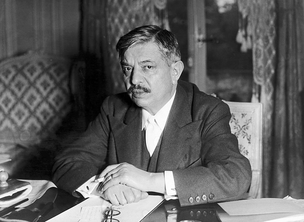 Portrait Of Pierre Laval In 1940, In His Office As Vice Council President At The Hotel Du Parc In Vichy.